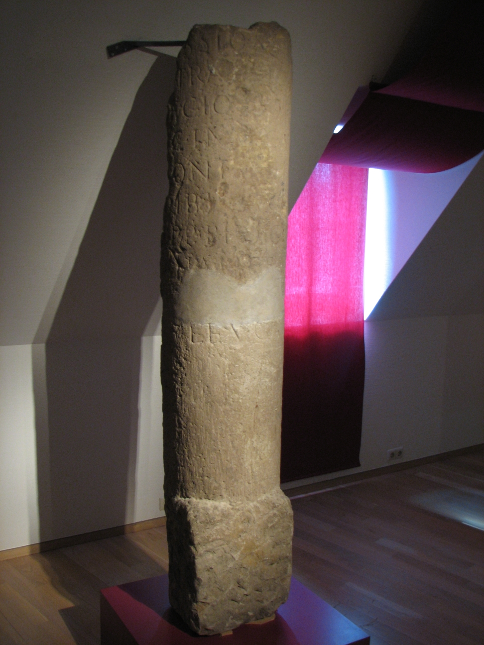 Roman Milestone found in Rijswijk, The Netherlands 1963, presently on display in the Museum of Antiquities Leiden, The Netherlands. CIL XVII² 587.